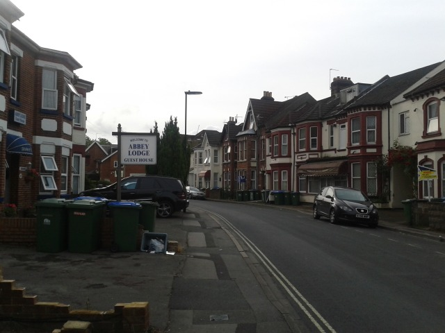 The Polygon